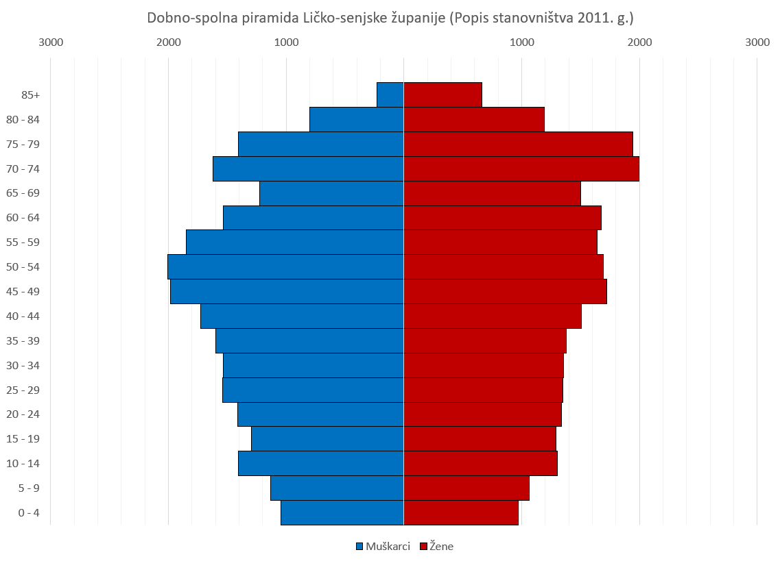 Population pyramid of Lika-Senj County. Version in Croatian. Data from 2011 Census; available at